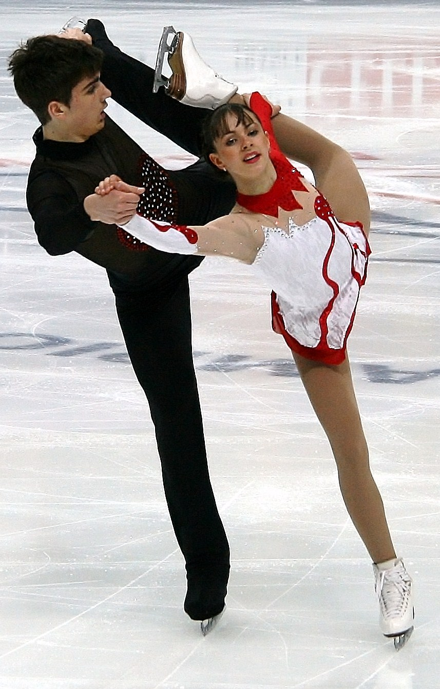 Natalja Zabijako and Sergei Kulbach at the 2011 World Figure Skating Championships